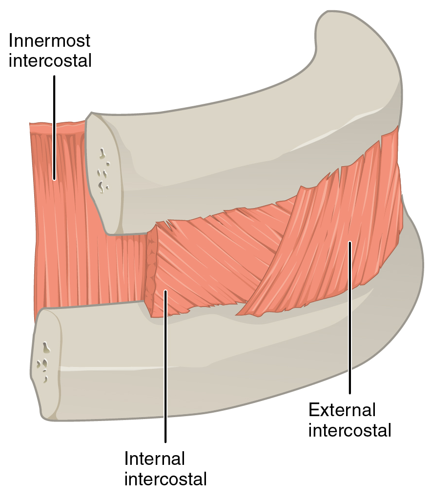 Based off